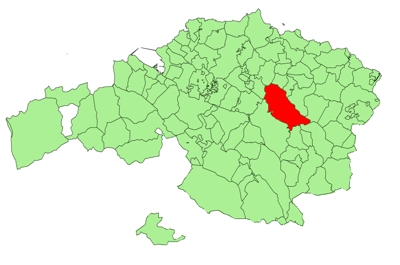 Muxika municipality in the province of Biscay